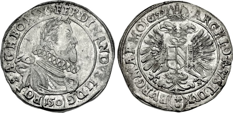 AUSTRIA, Holy Roman Empire. Ferdinand II. Emperor, 1619-1637. AR Kippertaler zu 150 Kreuzer (43mm, 25.08 g, 12h). Prague mint. Dated 1622. Laureate bust right / Crowned double-headed eagle facing; crowned coat-of-arms on breast. Herinek 648. Good VF, toned, well struck for issue.